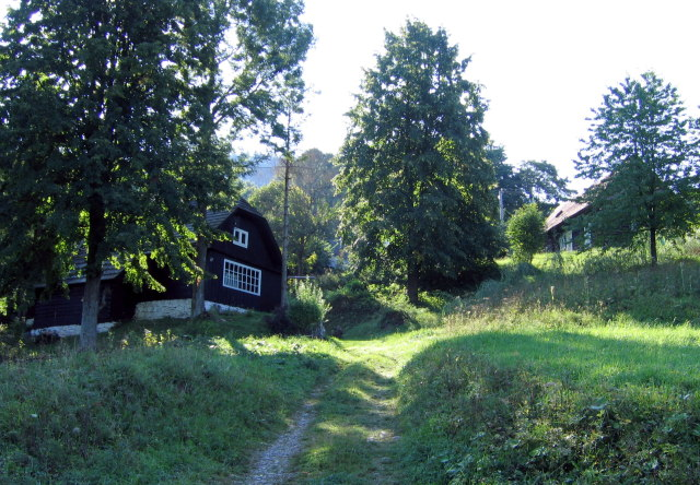 Supposed birthplace of Juraj Jánošík, Terchová, part "Jánošíkovci"